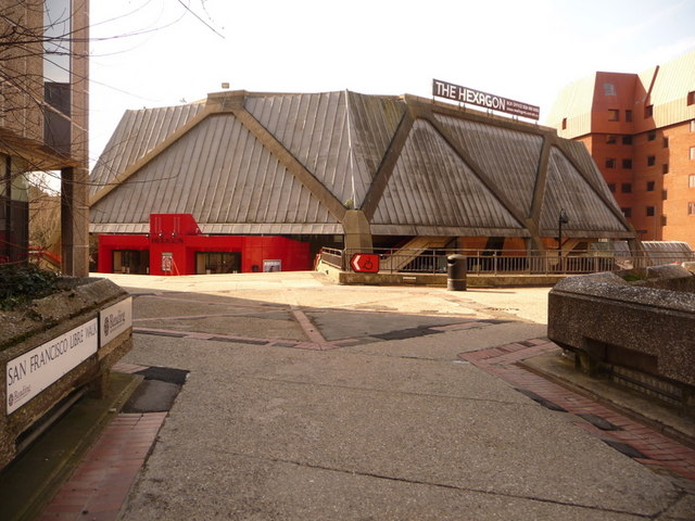 Looking along the western end of a not-particularly-inspiring concrete pedestrianised part of town, rather exotically named San Francisco Libre Walk, alongside the Civic Centre (on the left). The Hexagon is a former mainstay of the professional snooker circuit, hosting the Grand Prix from 1979 to 1993 as well as a couple of televised events at the turn of the century.